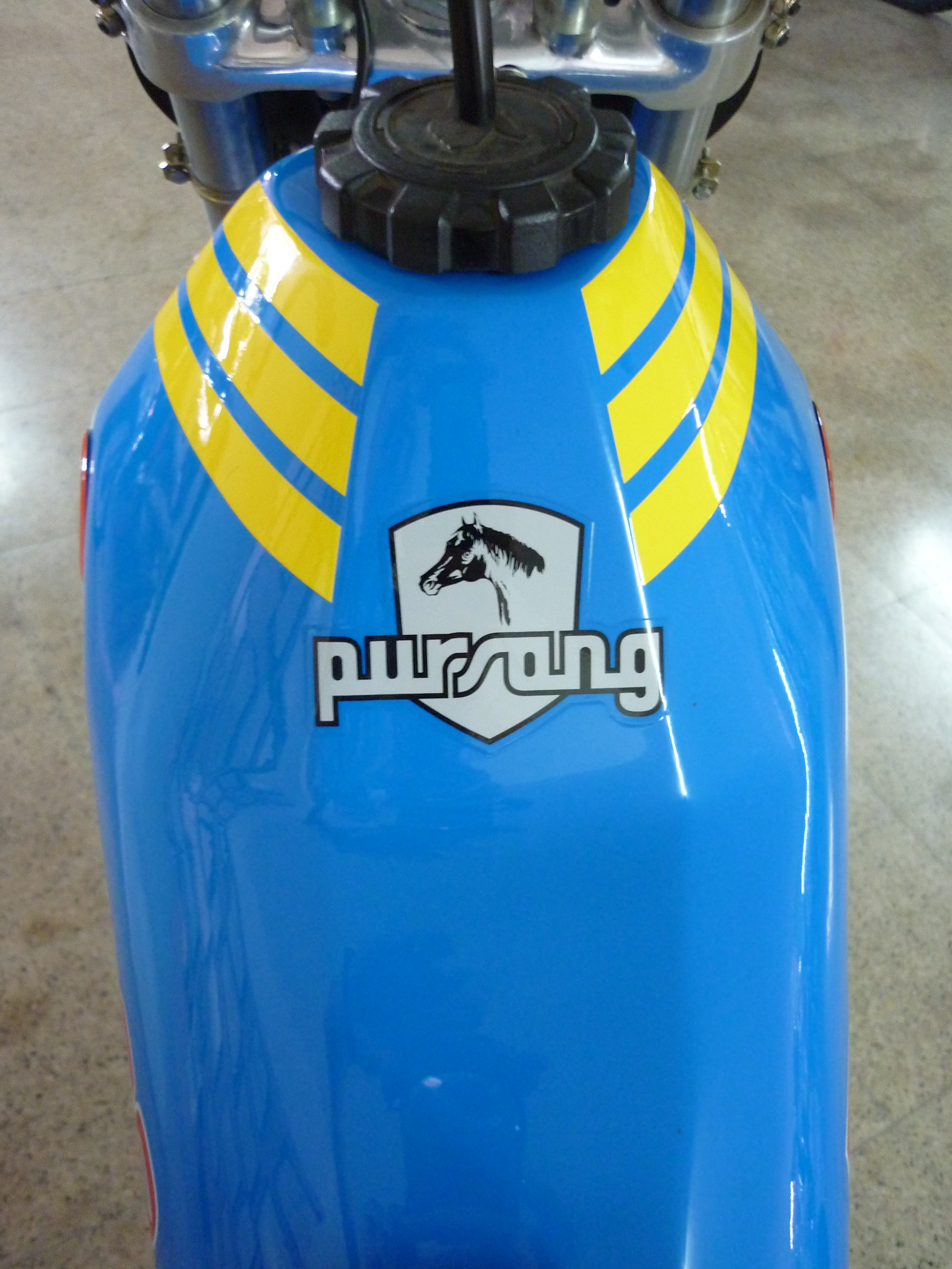 Tank of a Bultaco Pursang MK15 125cc prototype (1980), did not sell because the company went into bankruptcy.Isern Motorcycle Museum, Mollet del Vallès (Catalonia).